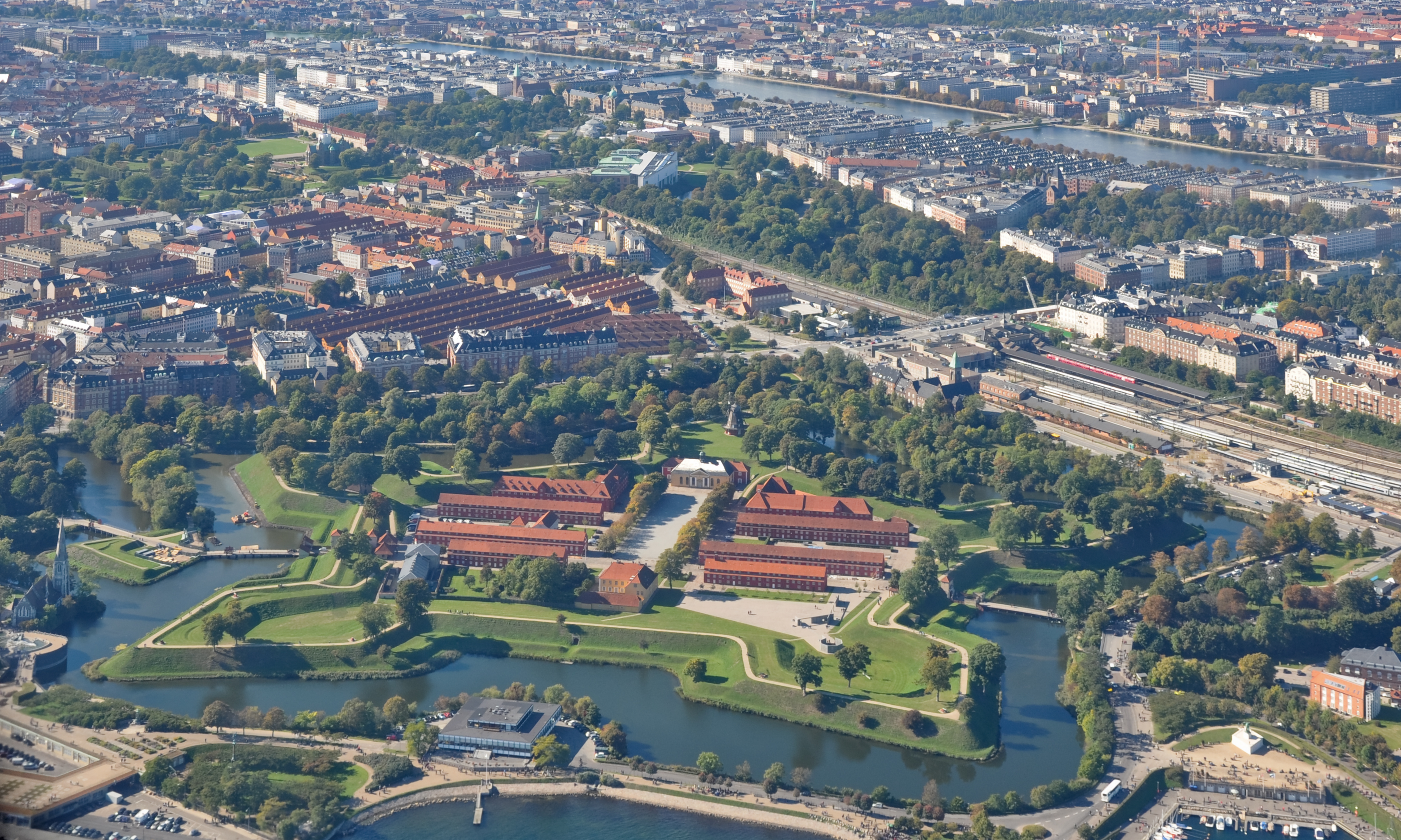 Aeriel view of Kastellet in Copenhagen, Denmark, and the district of Østerbro